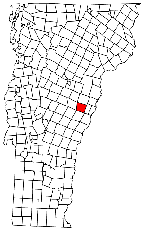 Map of Vermont towns with Vershire highlighted